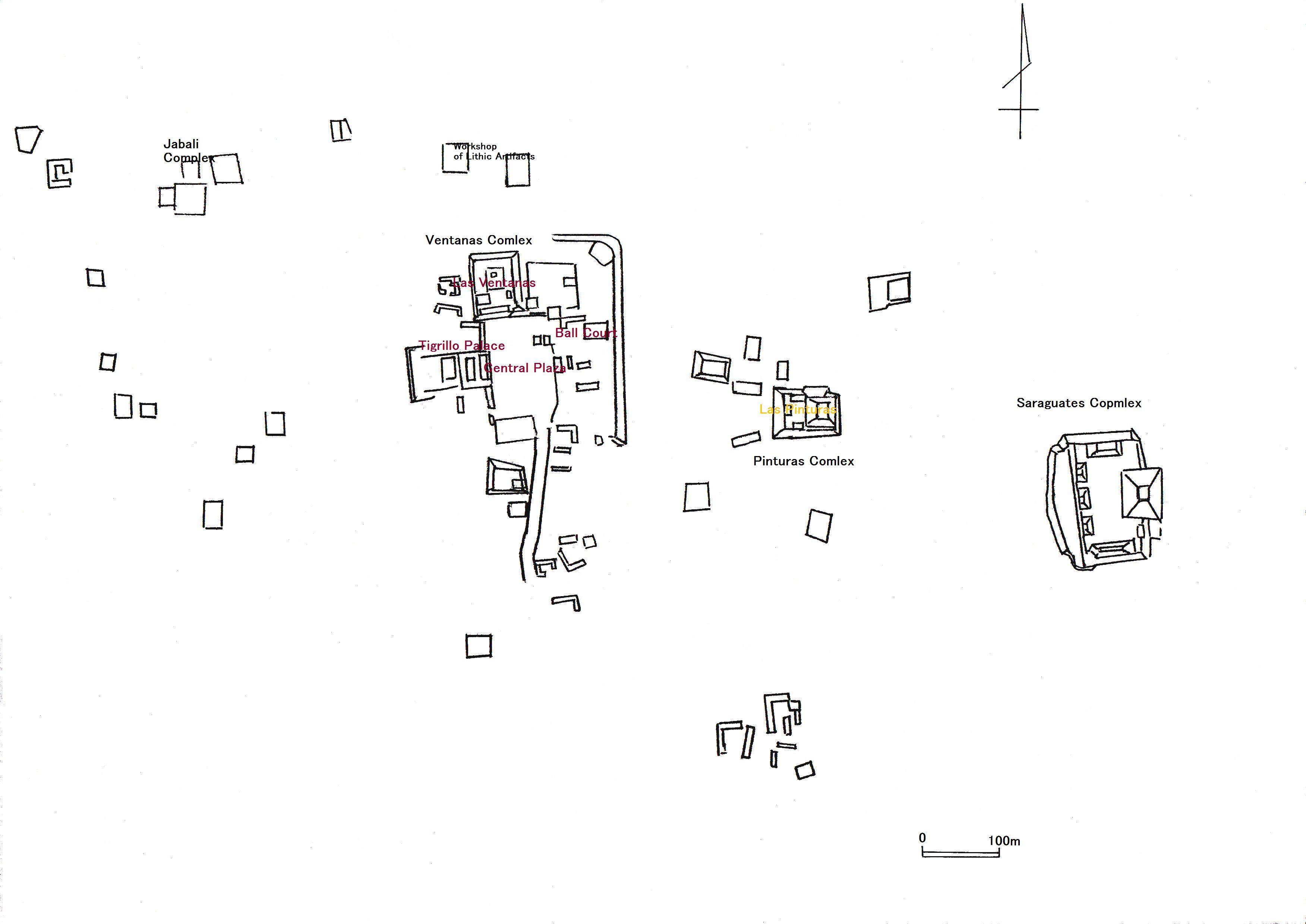 Map of central San Bartolo